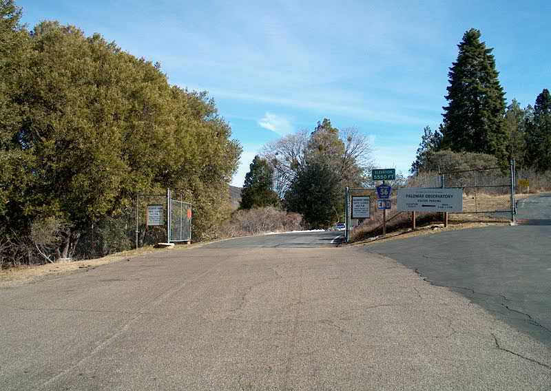 Taken by Philip Erdelsky and released into the public domain.